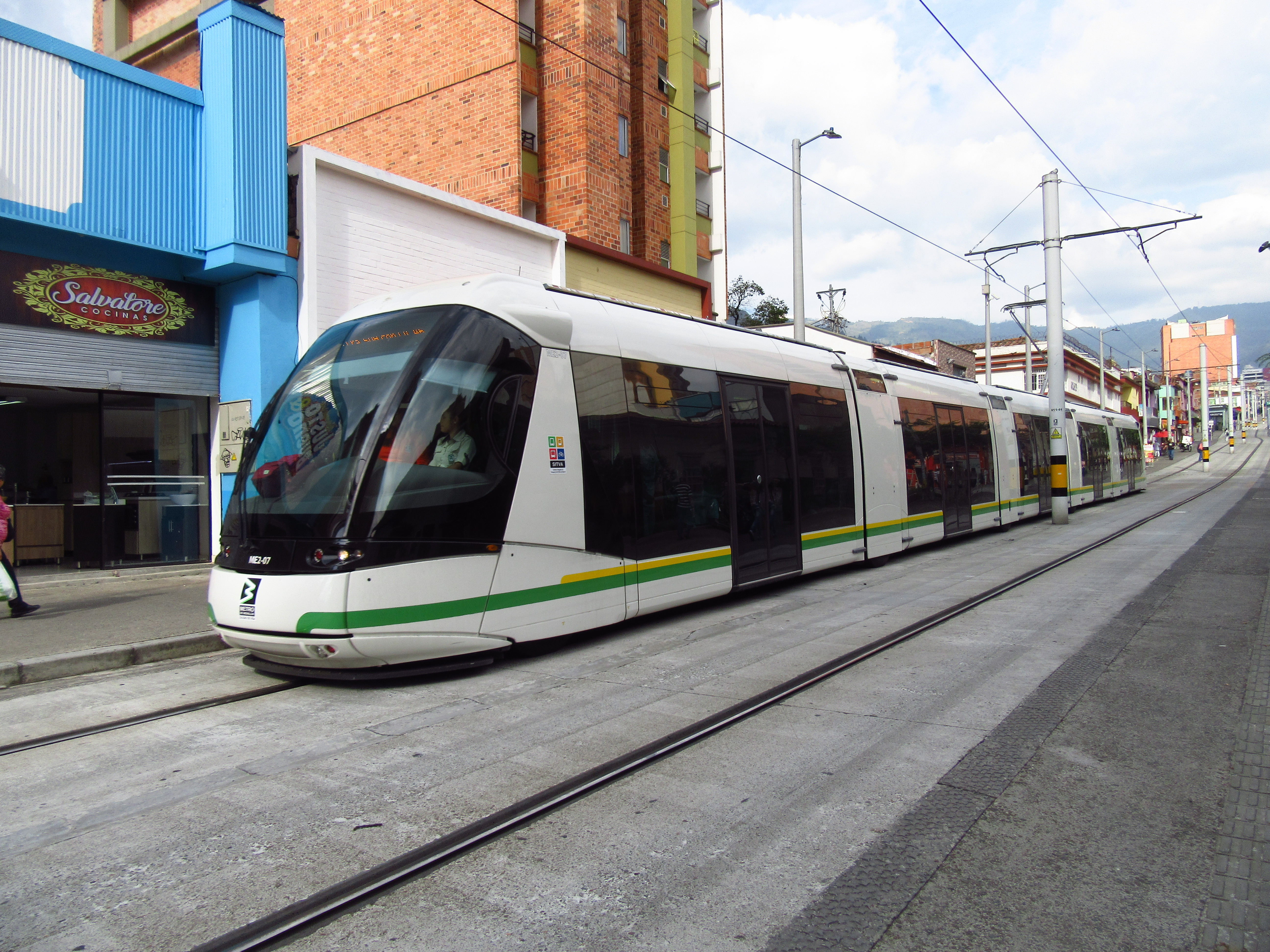 Medellín